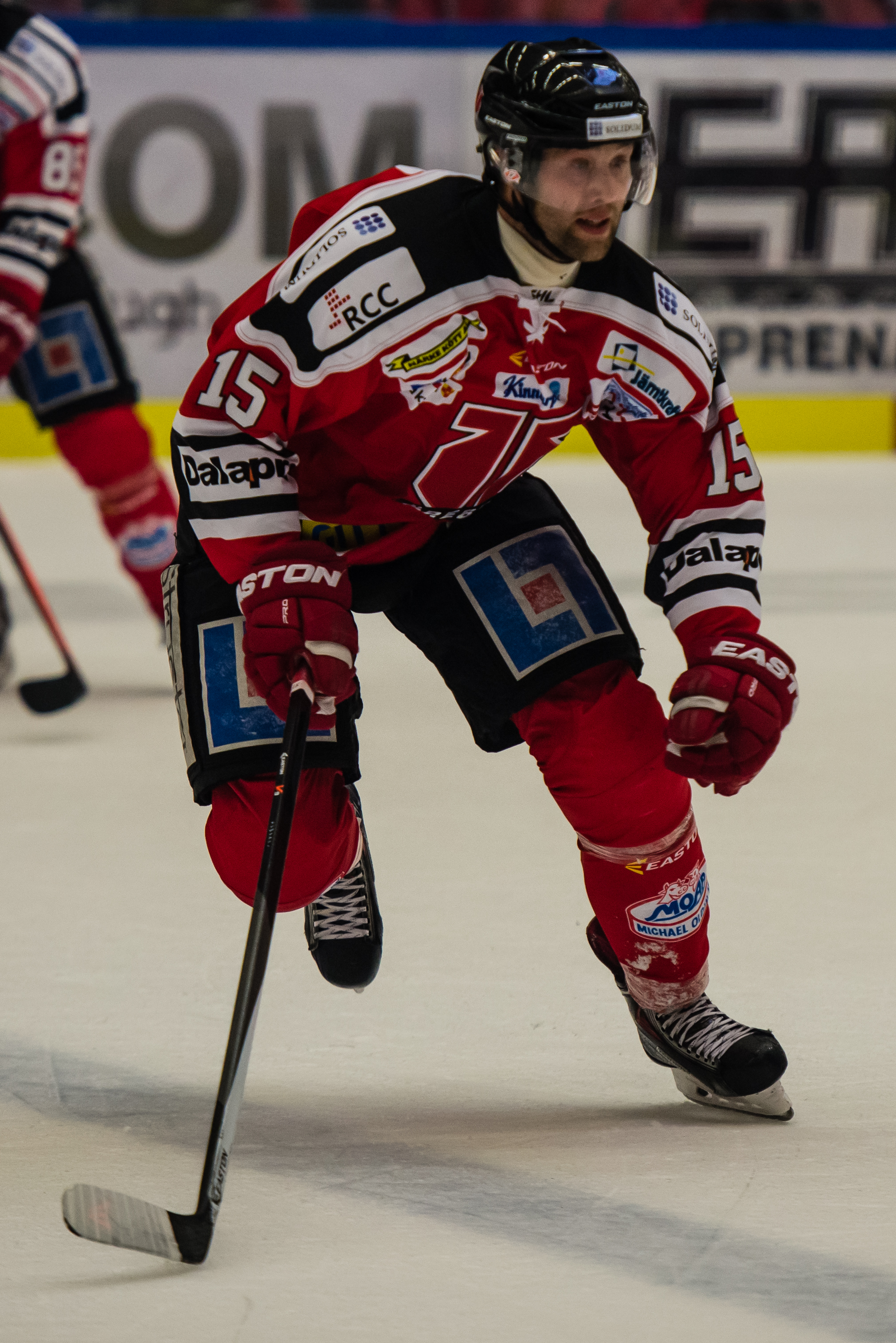 Henrik Löwdahl playing for Örebro HK in SHL (Sweden's highest league) against MODO Hockey in Behrn Arena 2013-10-05.